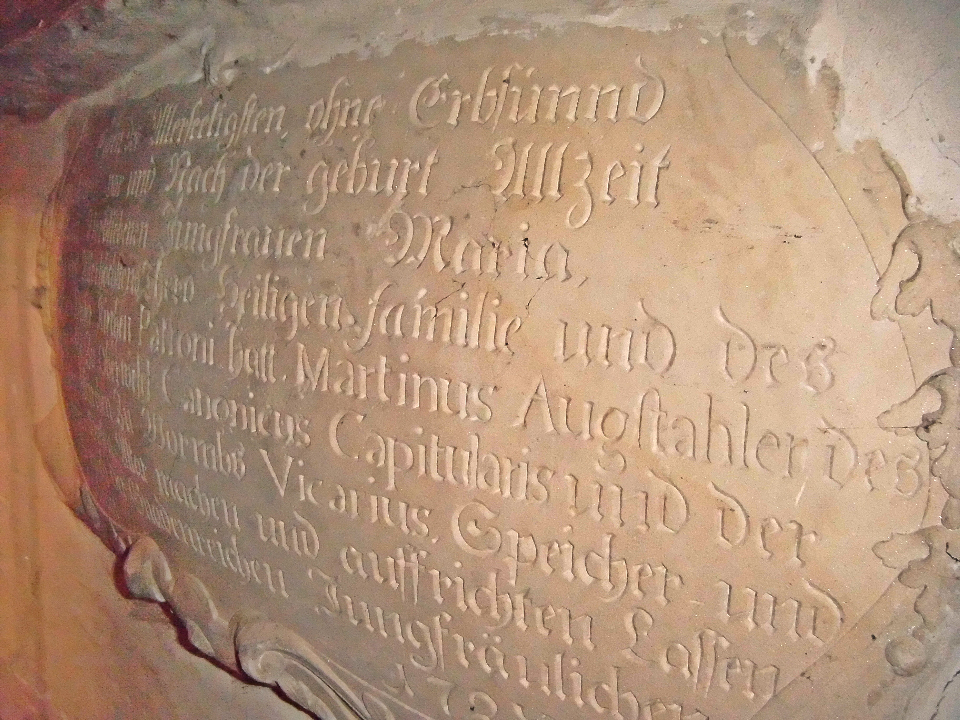 Hochaltar der St. Stephans Kirche Grünstadt-Sausenheim, gestiftet 1728 vom Womser Domvikar Martin Augsthaler (Stifter-Inschrift)